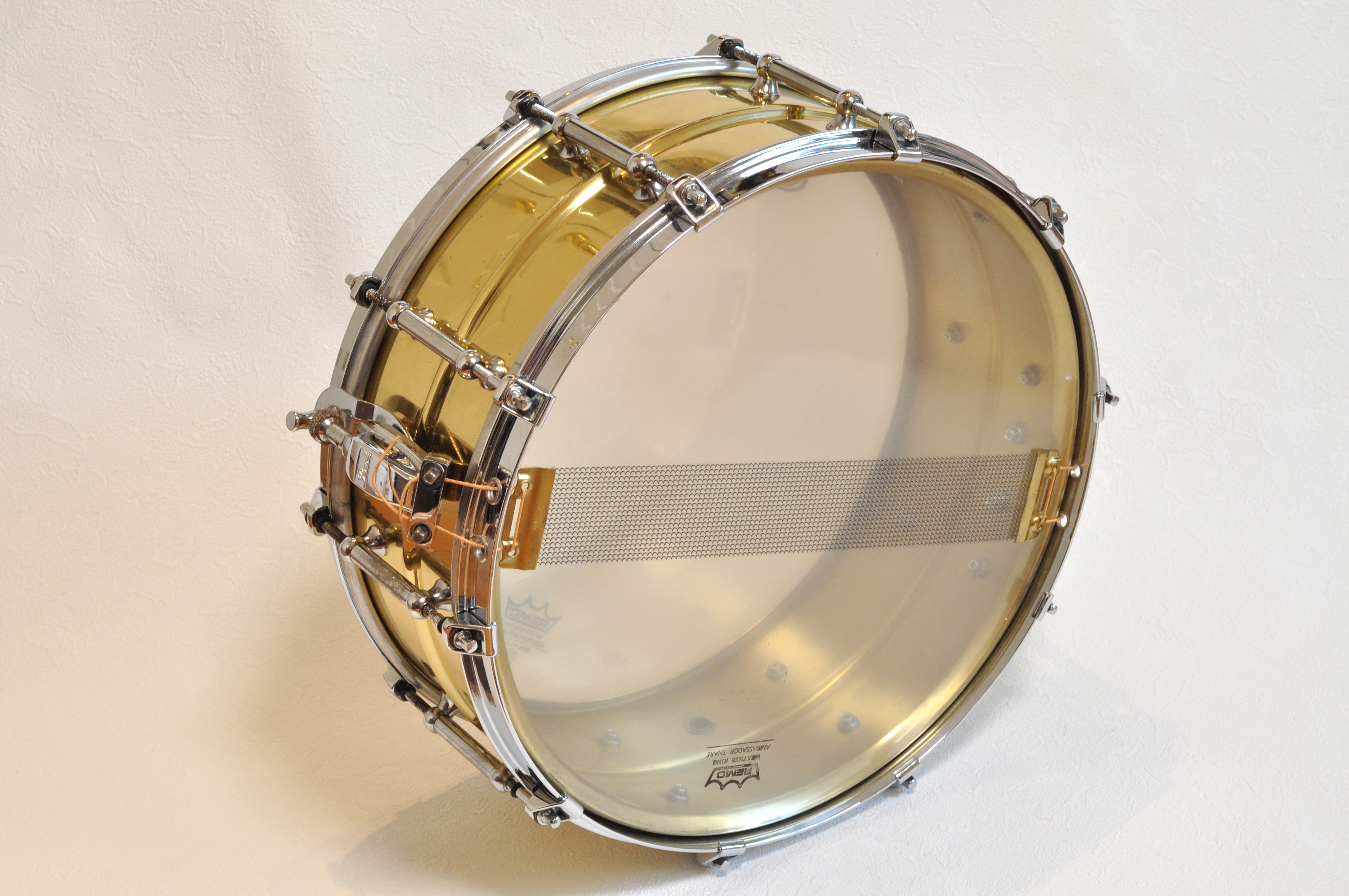 Pearl sencitone classic 2 Brass shell 14*5